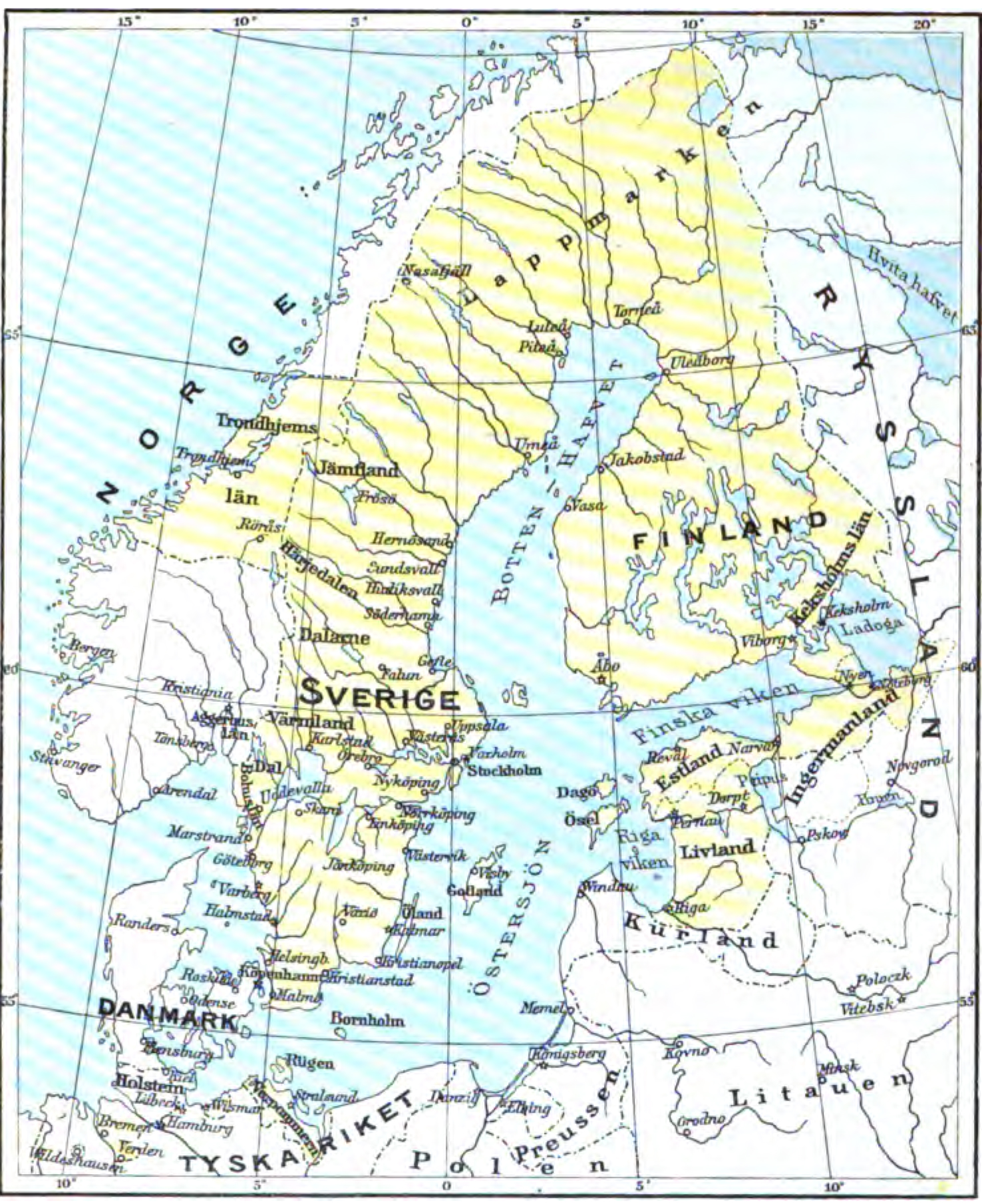 Swedish Empire in 1658